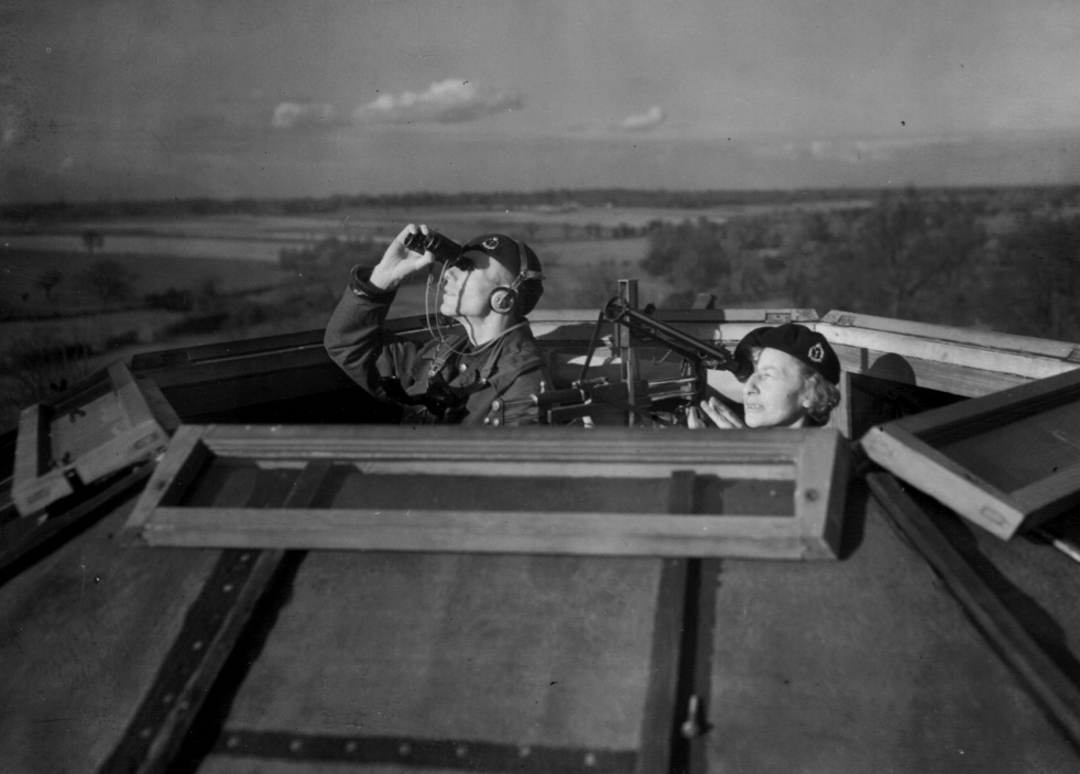 Photograph depicting Royal Observer Corps aircraft spotters in the period immediately after the Battle of Britain during 1941. Original taken in excess of 50 years ago and consequently now out of copyright under UK law.